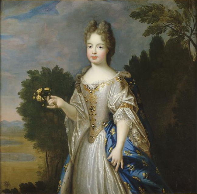 Marie Adélaïde of Savoy (1685-1712), duchesse de Bourgogne at the age of c. 15